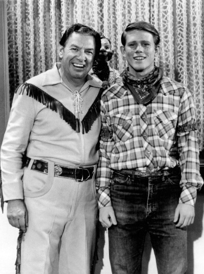 Photo of Bob Smith (Buffalo Bob), Ron Howard (Richie Cunningham) and Howdy Doody from the television program Happy Days. This episode has the Howdy Doody show coming to Milwaukee, where Richie enters a contest for the person who looks most like Howdy Doody.